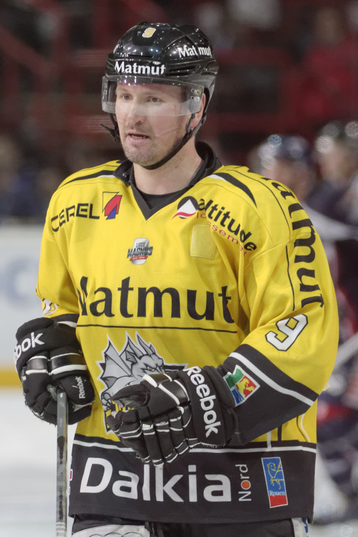 Final of the Ice Hockey French Cup 2014.